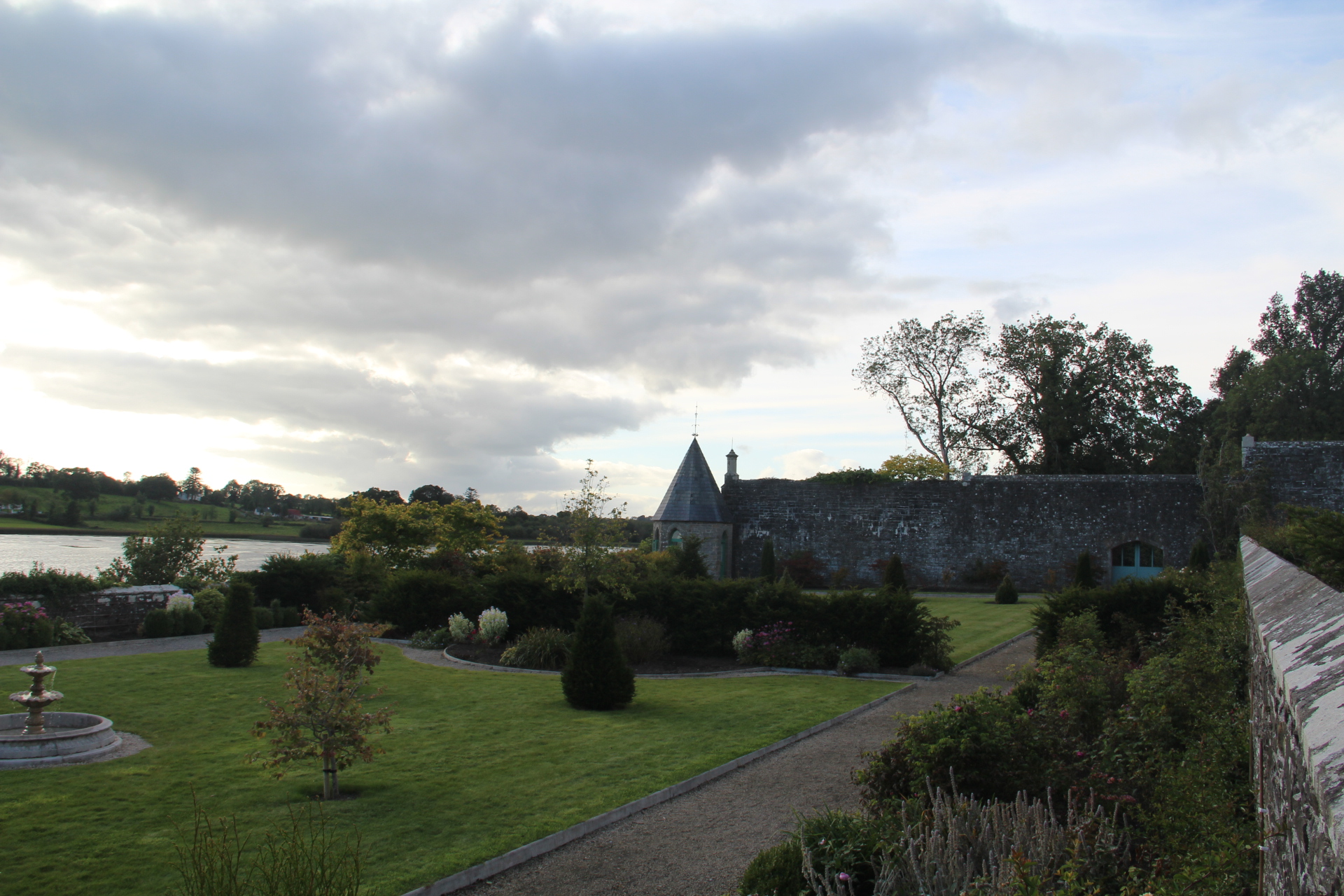 View of lower walled garden and tower (with Lough Rynn in the background)